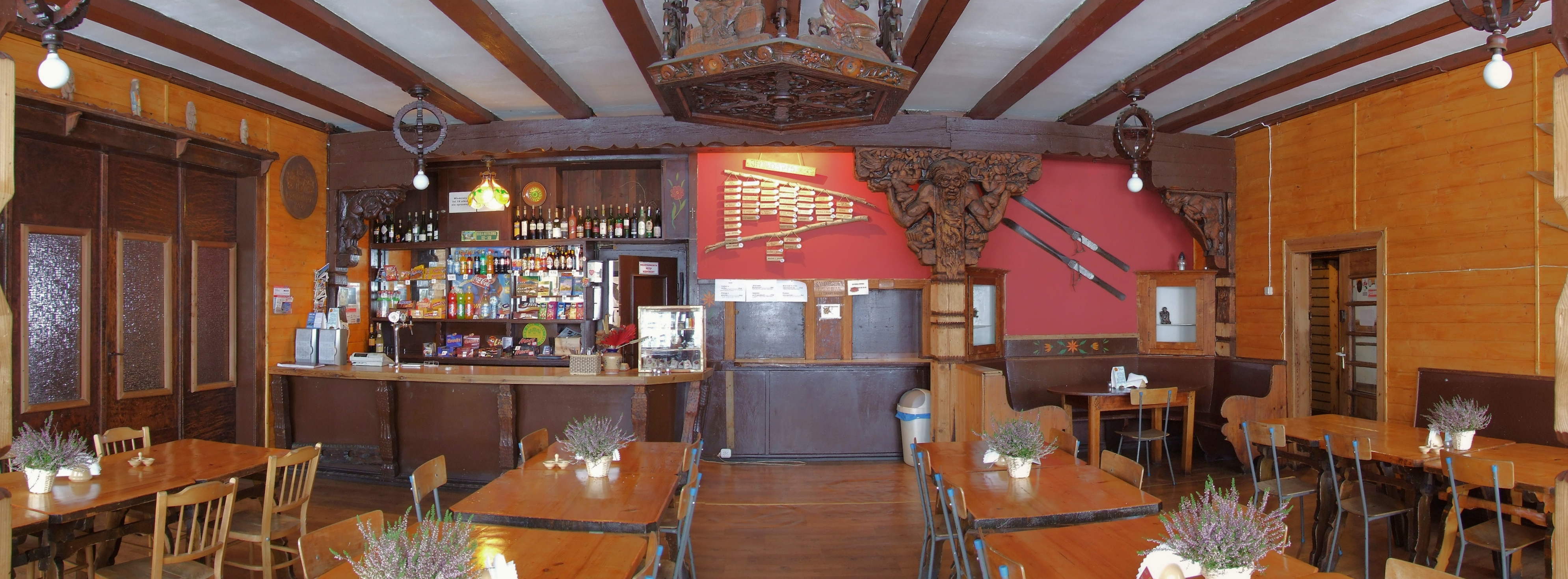 Mountain hostel "Andrzejówka", interior